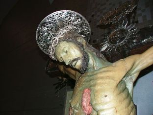 crocefisso - Santa Margherita Belìce